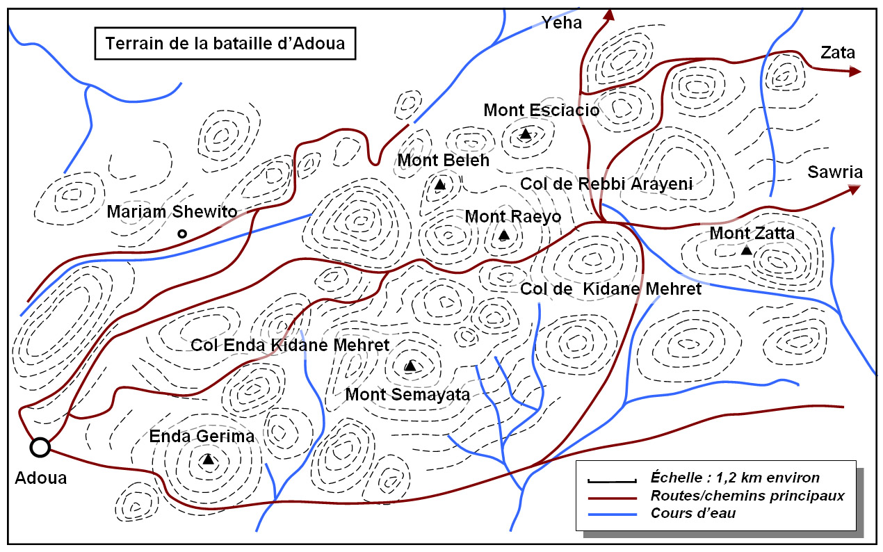 Field of the battle of Adua (1896)